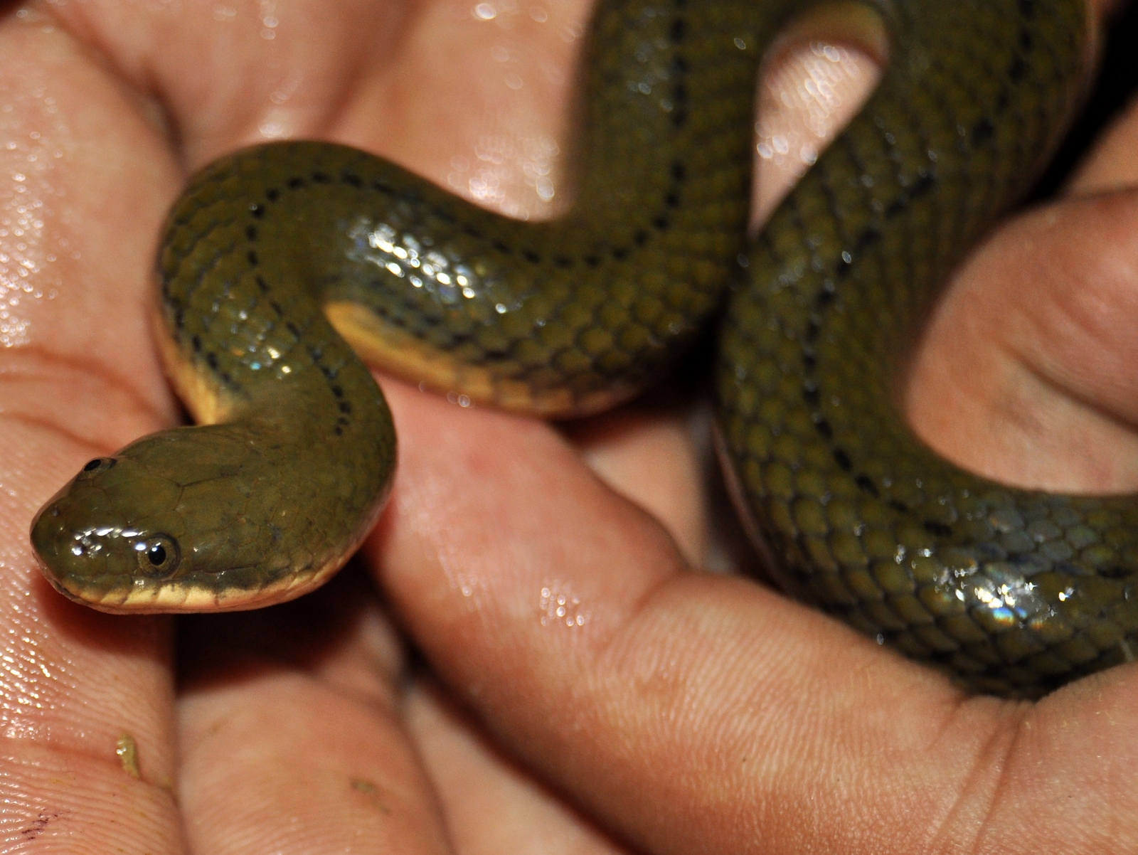 Plumbeous water-snake, Enhydris plumbea; ca. 40cm TL. From Karawang, West Java.